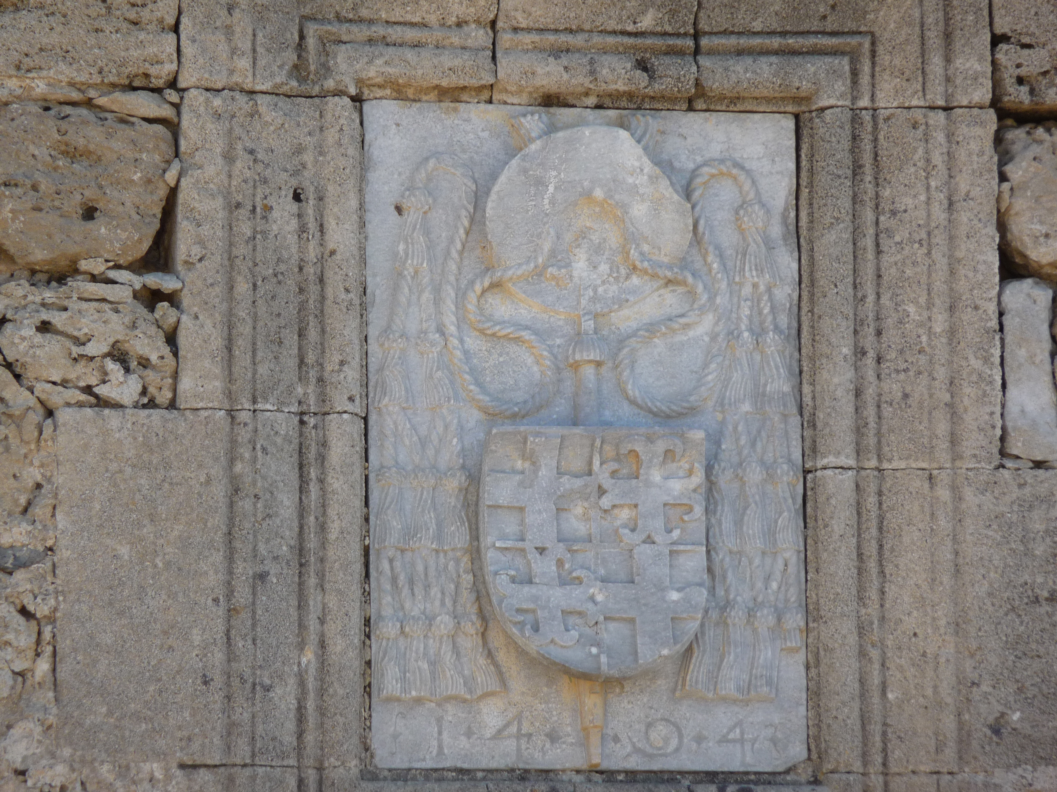 The datestone above the entrance to the Antimachia Castle on the Greek island of Kos, showing the year 1494. The coat of arms belongs to Pierre d'Aubusson, a Grand Master of the order of Saint John of Jerusalem.